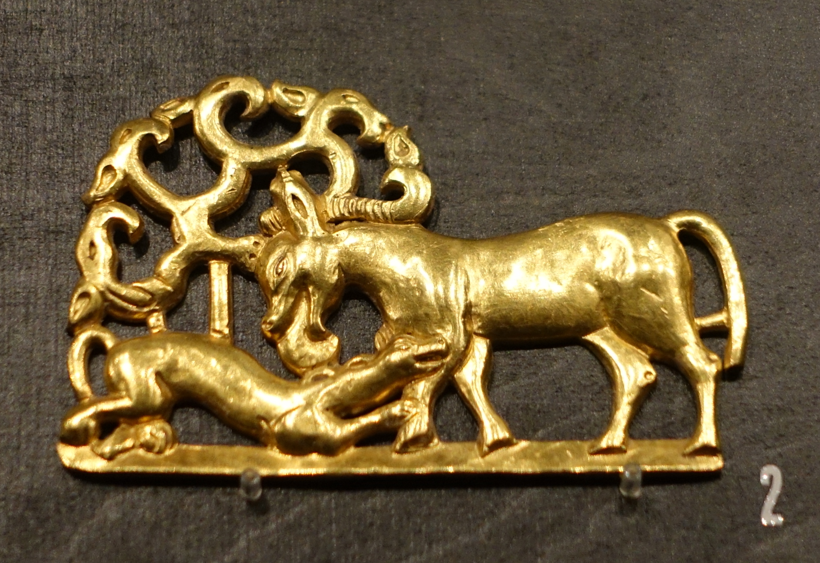 Exhibit in the Östasiatiska museet, Stockholm, Sweden. This artwork is old enough so that it is in the public domain. This is a photo of an artwork at the Museum of Far Eastern Antiquities in Sweden with the identifier: K-14769